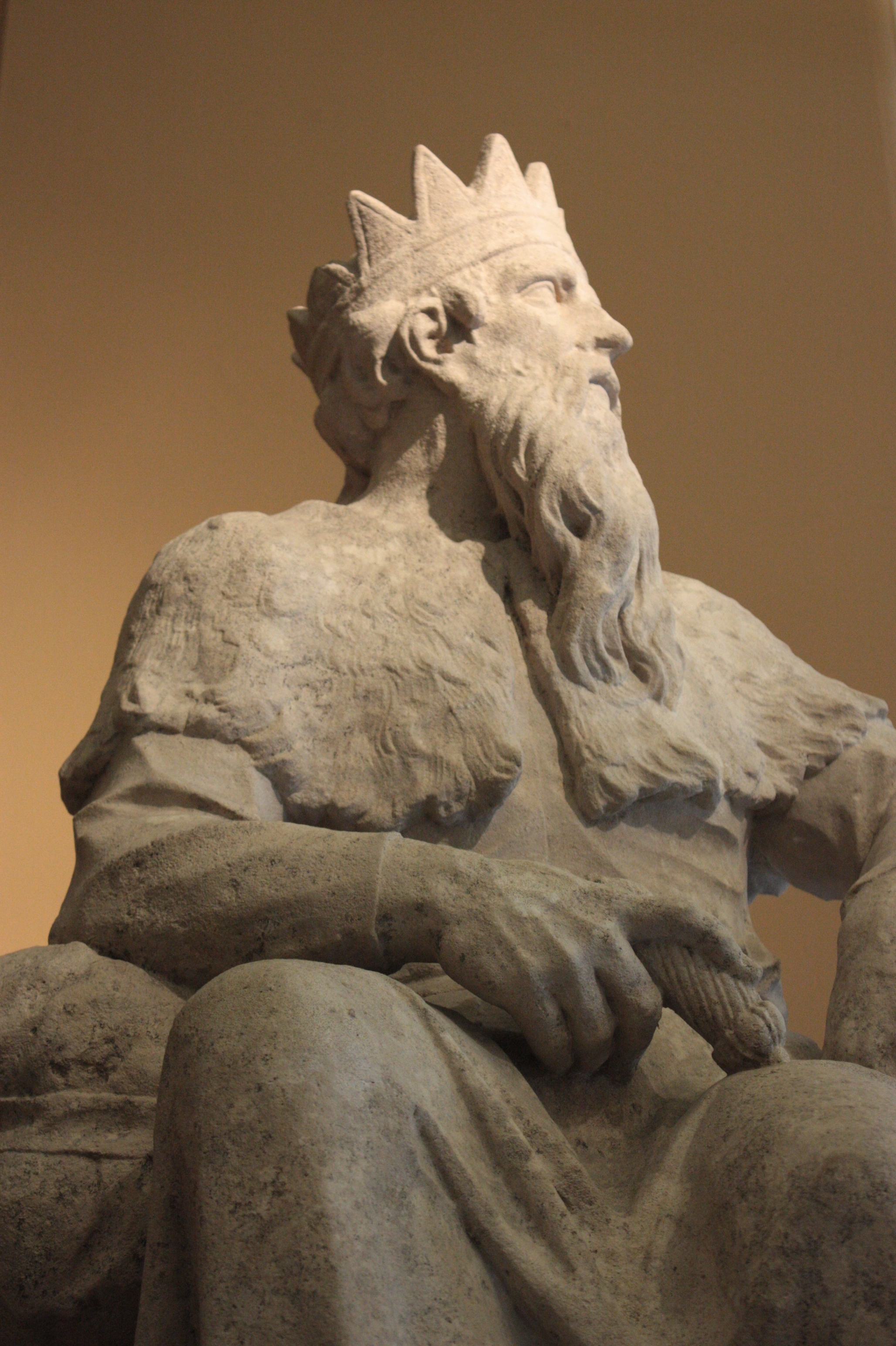 Thuner by John Michael Rysbrack, V&A